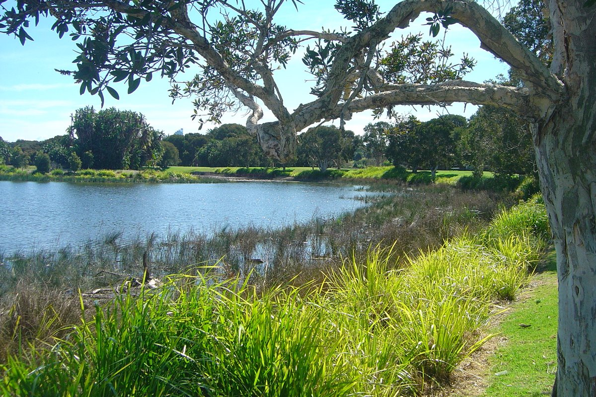 Centennial Park